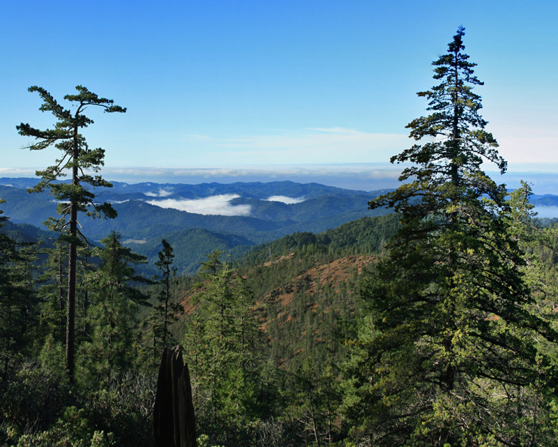 Looking down Cedar Creek to the South Fork of the Eel River from near the summit of Red Mountain.